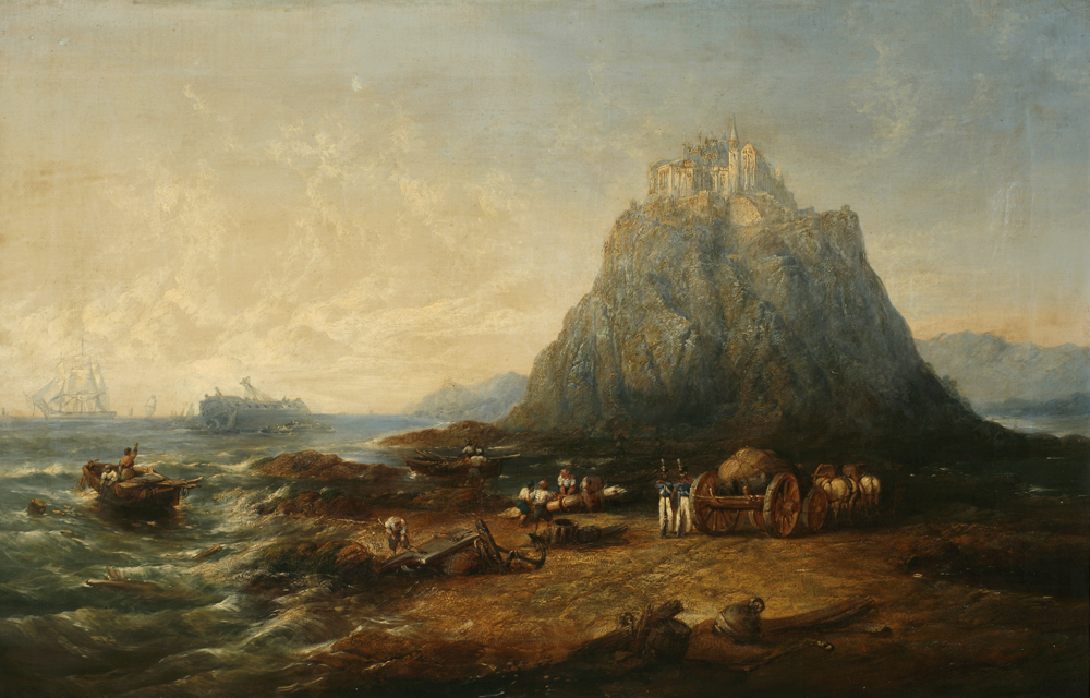 St Michael's Mount, landscape painting by William Wood Deane.